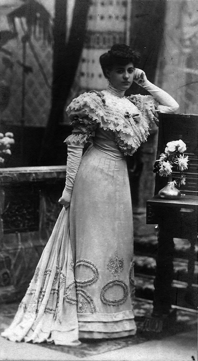 Portrait of Francisca Pomar de Maristany by Pablo Audouard in 1906